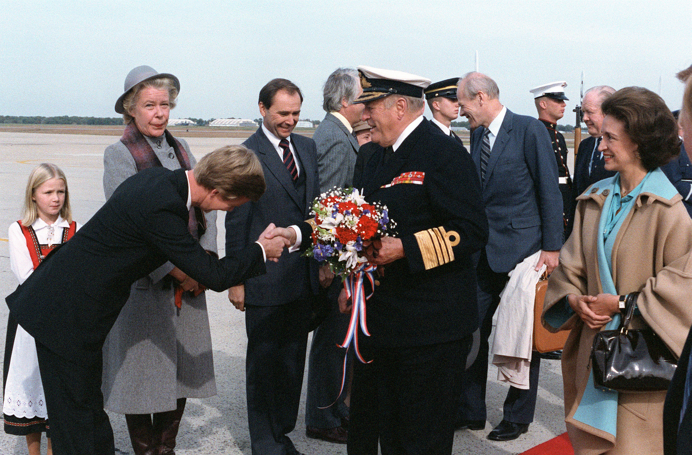 Norway's King Olav V and his entourage are greeted upon their arrival for a visit. ANDREWS AIR FORCE BASE.